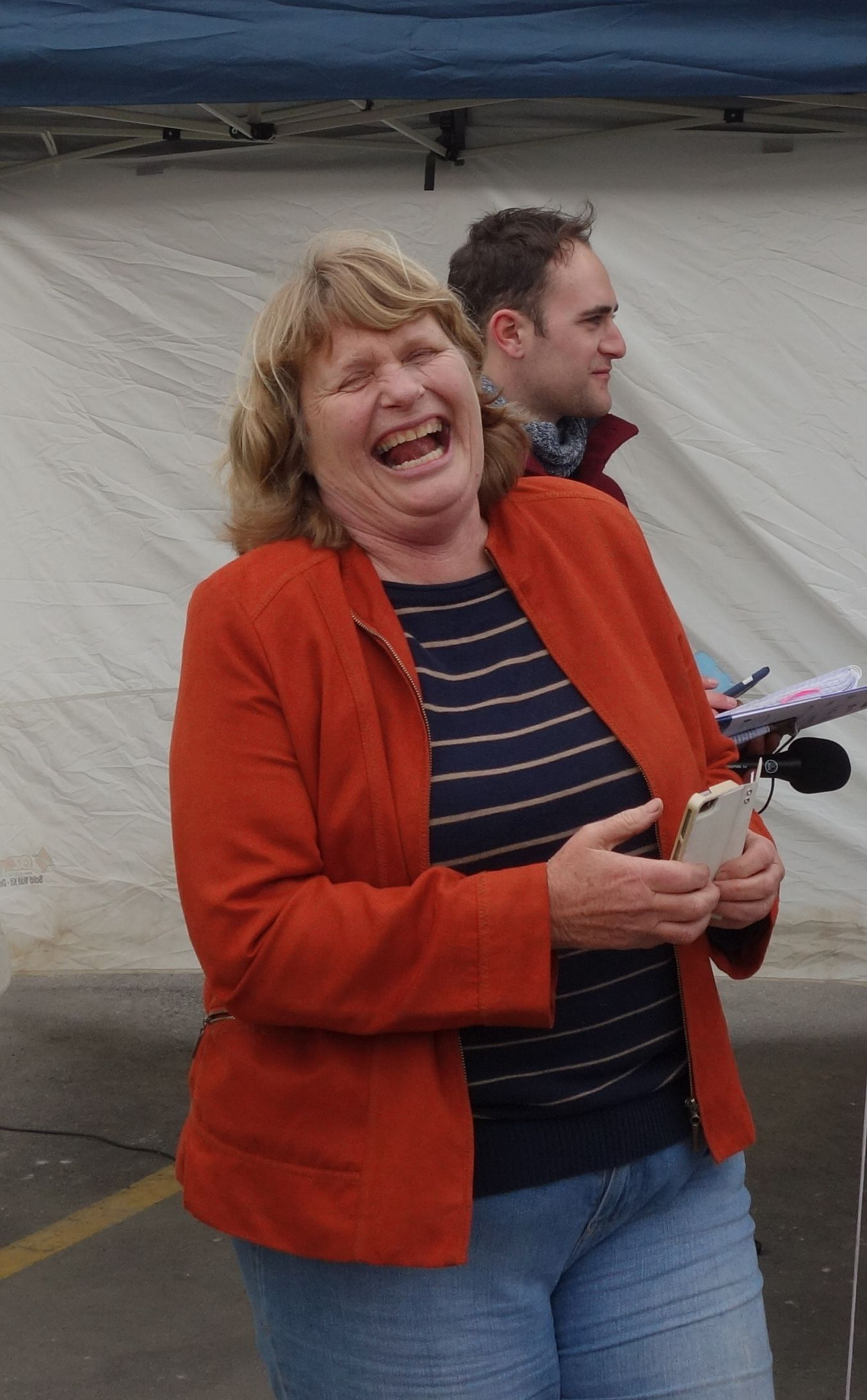 Vicki Buck in 2015